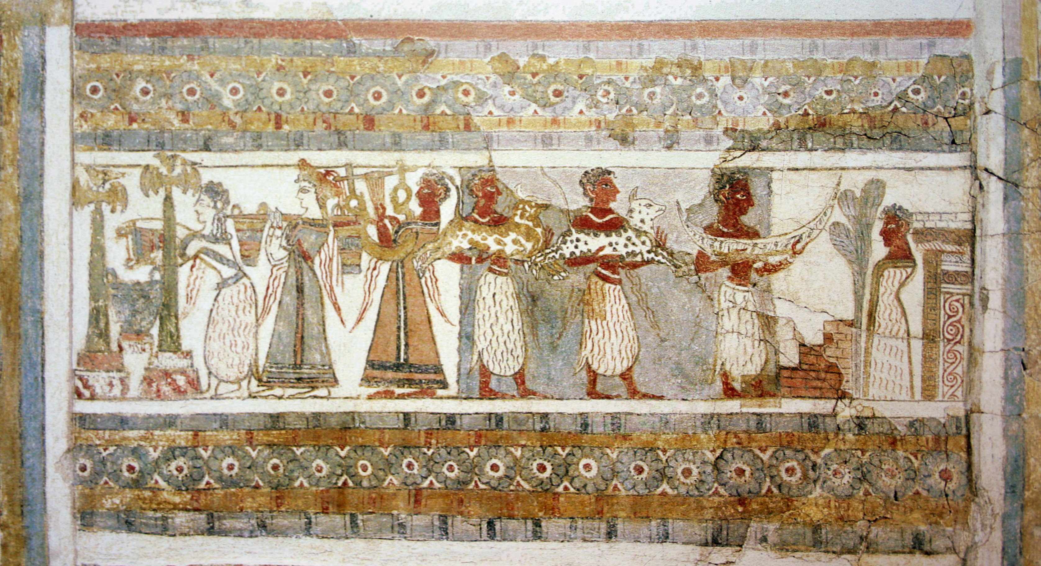 Sarcophagus from Aghia Triada, north side, Crete, Greece. Painted plaster on limestone. Length: 1.37 m.